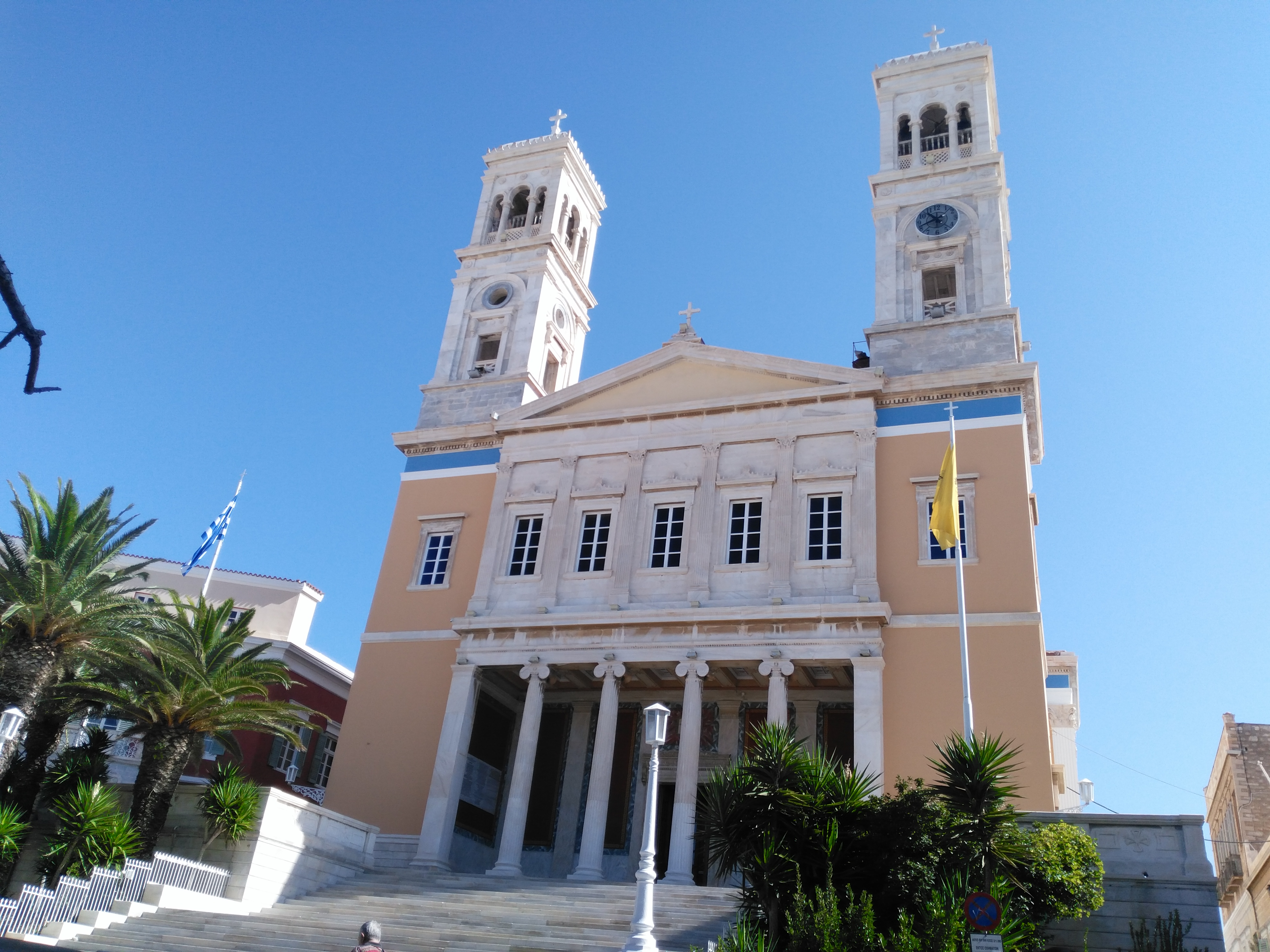 A photo of Silva Agios Nikolaos Church in Syros, Greece